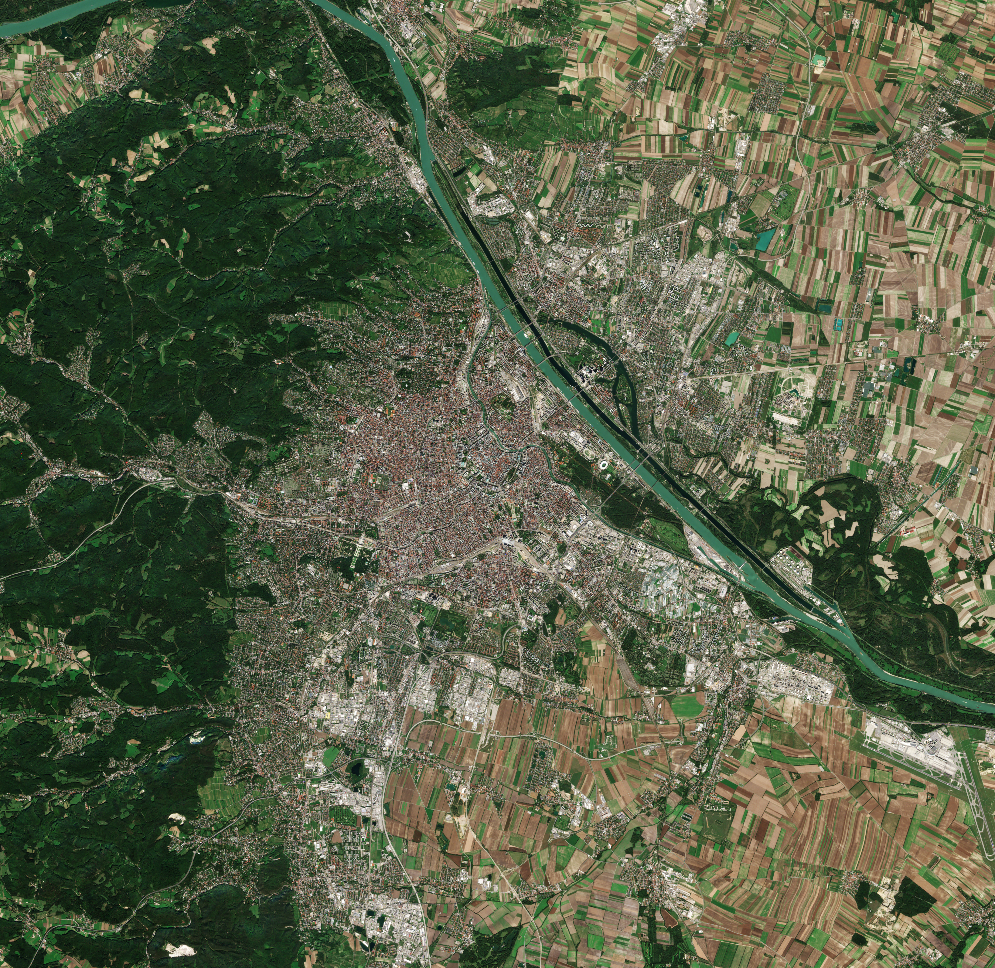 Date: 2018-09-28 Sensor: MSI on Sentinel-2B Resolution: 10m RGB Composites: True color, Band 4-3-2